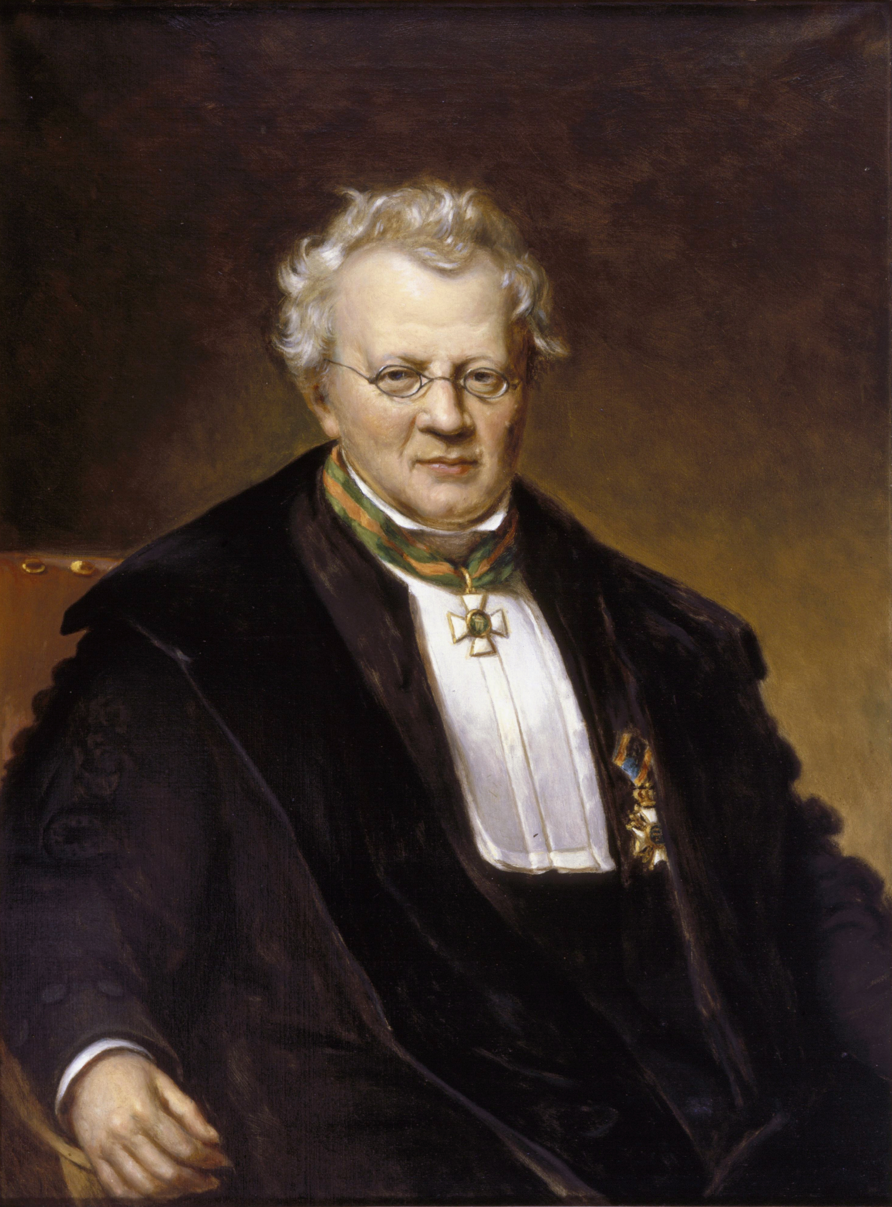 Jacob van Hall (1799-1859) oil on canvas 100 x 74 cm 1855-1896